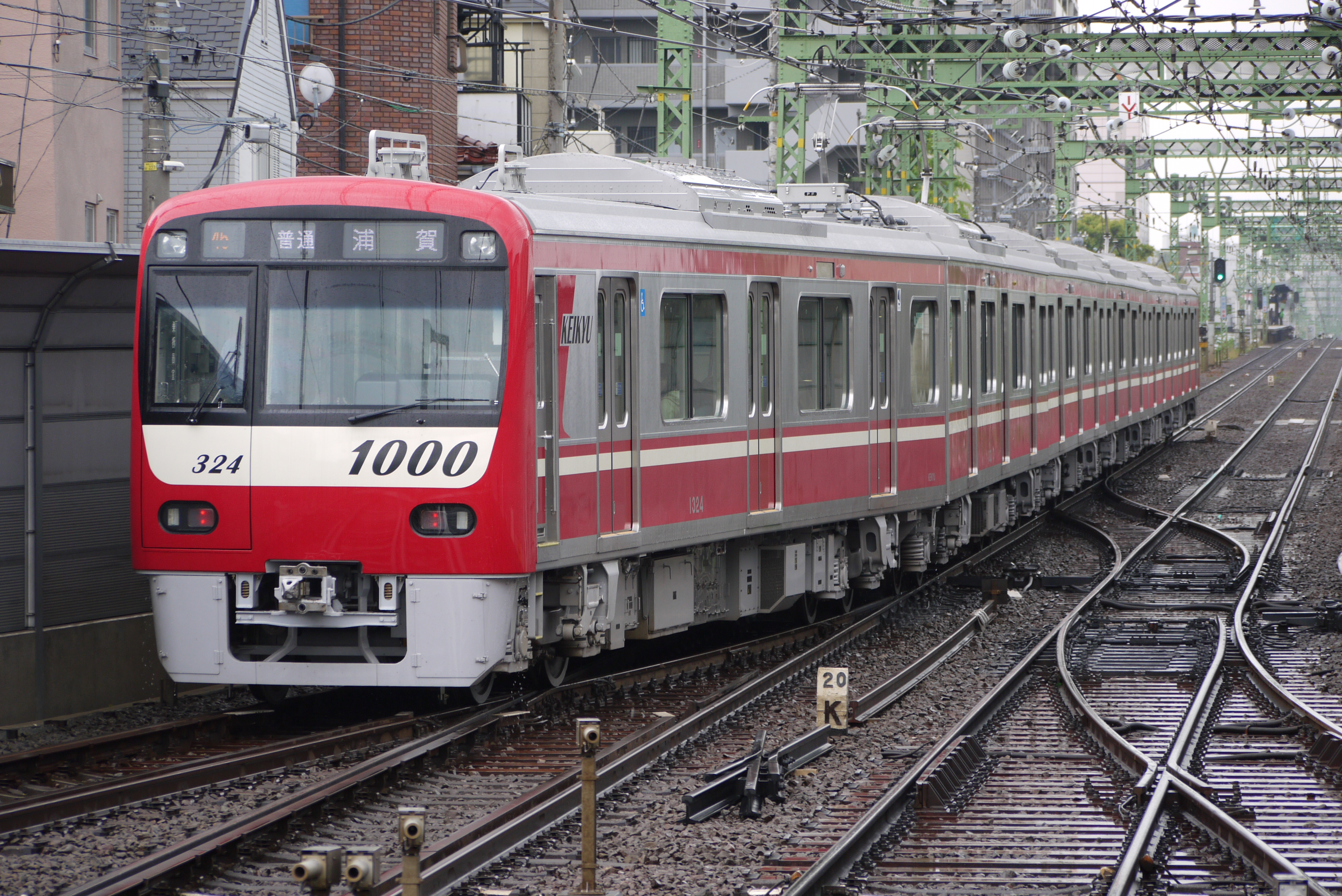 Keikyu New 1000 series EMU 12th-batch six-car set 1319 at Kanagawa Shinmachi on the Keikyuv Main Line